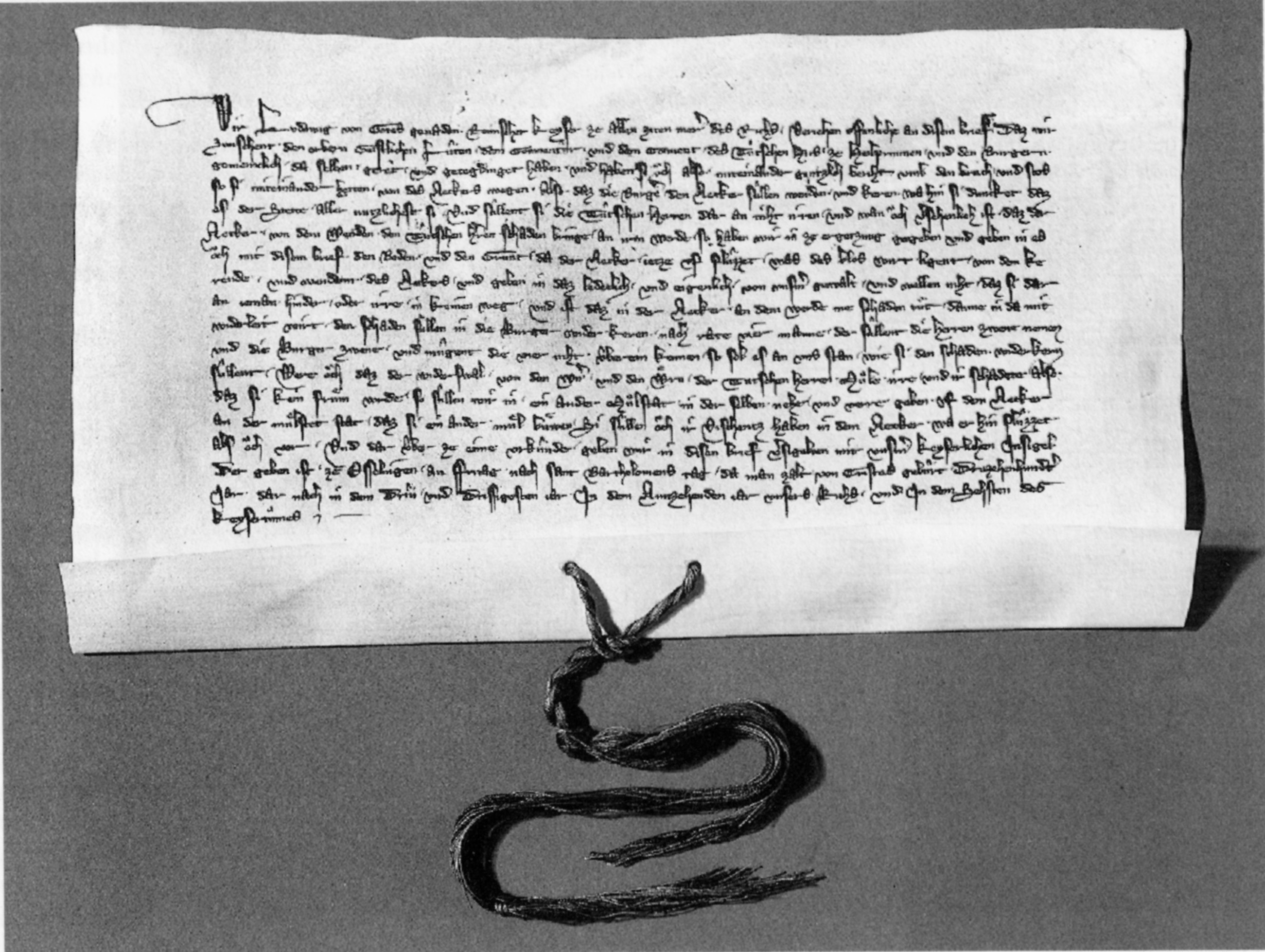 Deed of the Heilbronn Neckar privilege, 1333